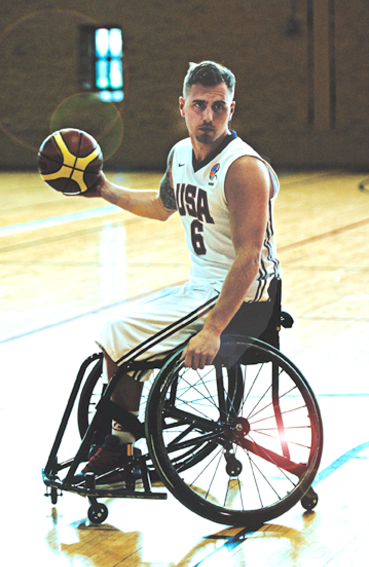 Preparing for game